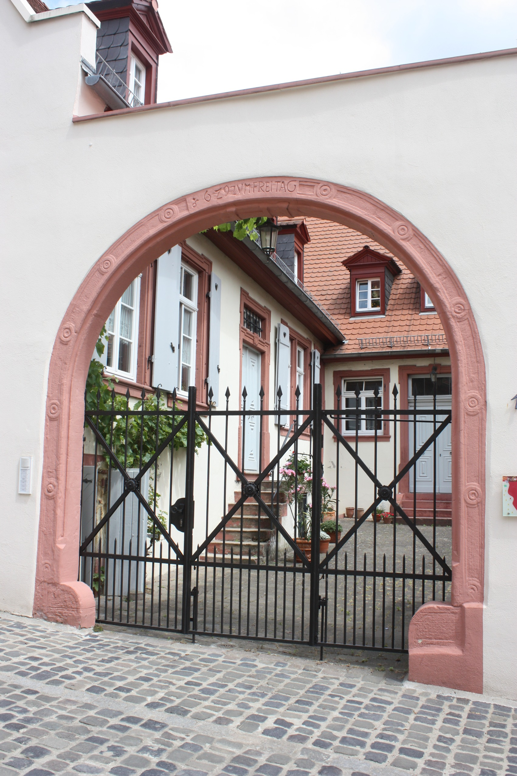 Oppenheim, yard and house on the Merianstraße